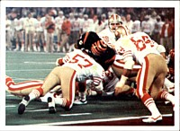 A football card from the 1986 Jeno's Pizza NFL football card stickers set of San Francisco 49ers linebacker Dan Bunz tackling Cincinnati Bengals running back Pete Johnson during the third quarter of Super Bowl XVI.. The card is numbered #27 in the set. The back of the card reads: THE 49ERS MAKE A STAND San Francisco linebacker Dan Bunz tackles Cincinnati's Pete Johnson on the 49ers's 1-yard line during the third-quarter goal-line stand that keyed San Francisco's 26-21 victory over the Bengals in Super Bowl XVI. After Johnson was stopped, the 49ers held the Bengals on three successive plays from the 1.